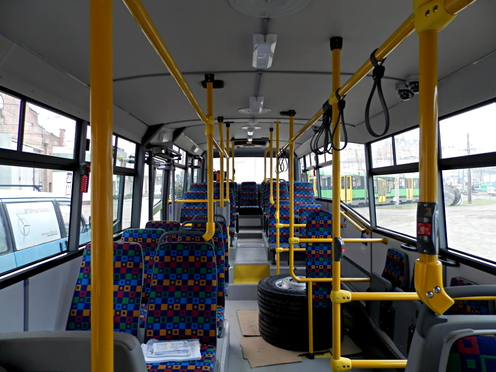 Wnętrze autobusu SOR